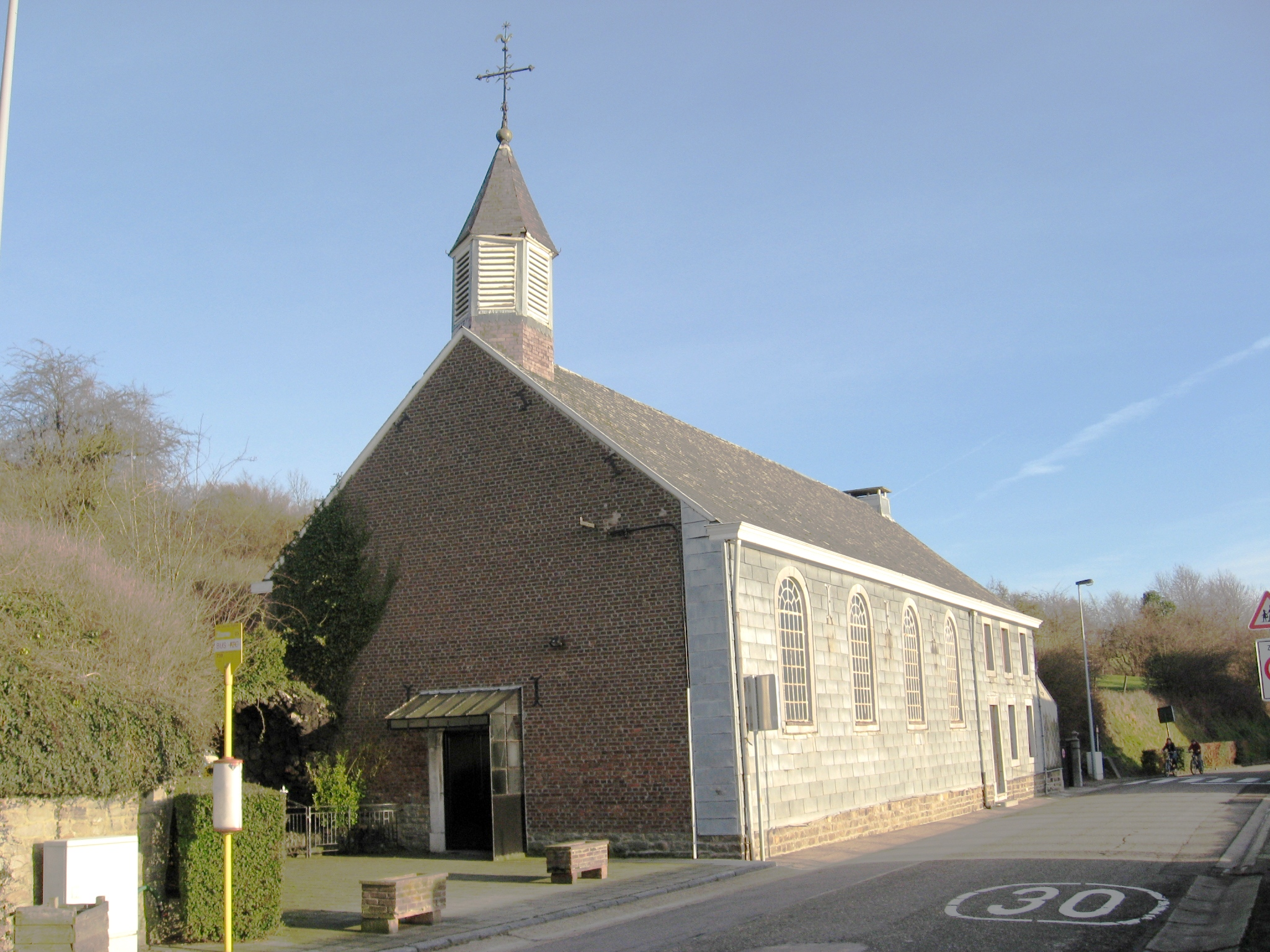 Church of Saint-Anthony the Hermit in Aubel (La Clouse), Liège, Belgium